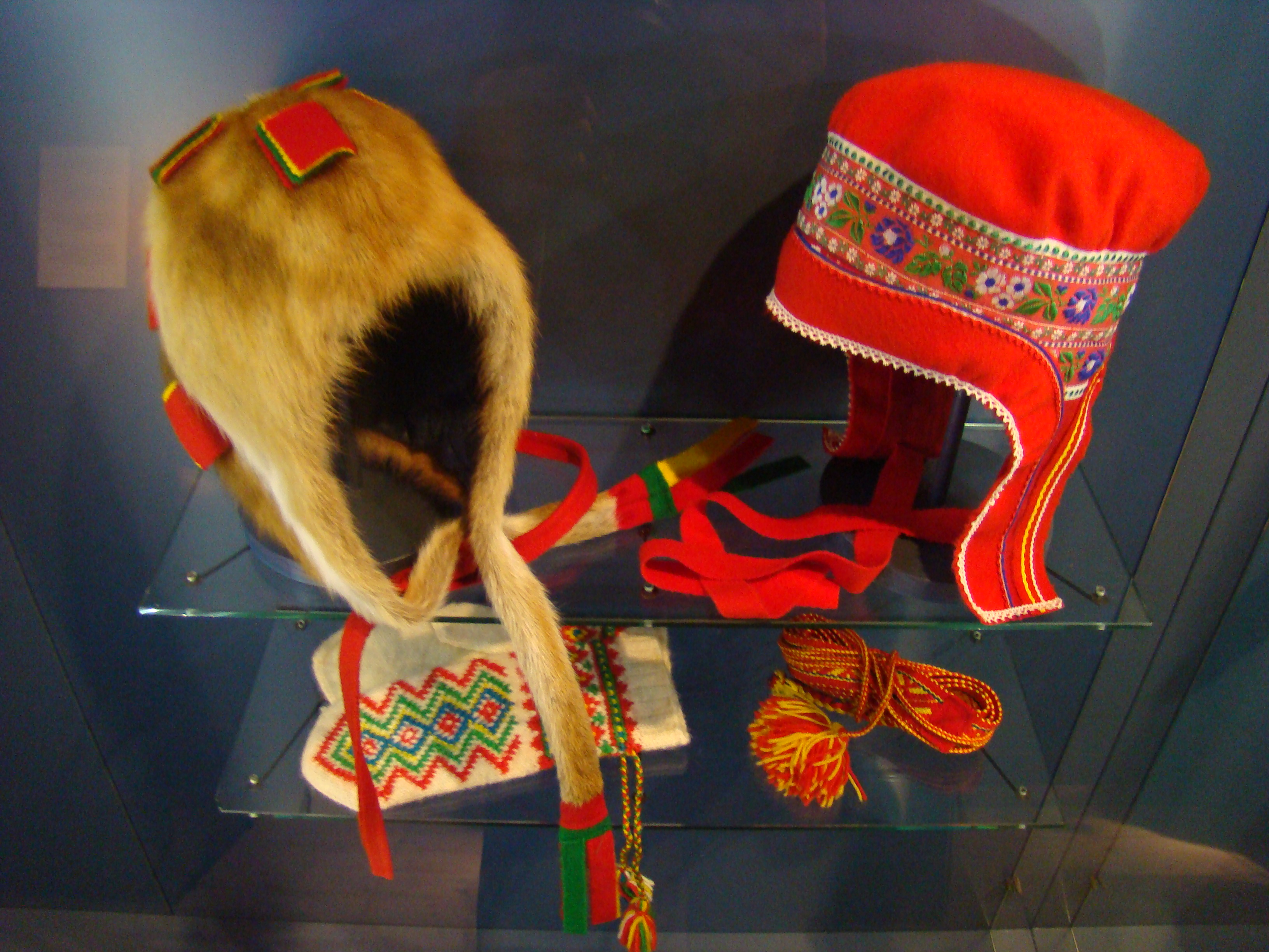 Sami clothing in the Arctikum museum, in Rovaniemi, Finland.